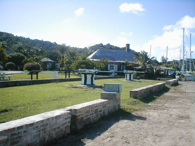 Picture taken at Nelson's Dockyard, while on holiday.